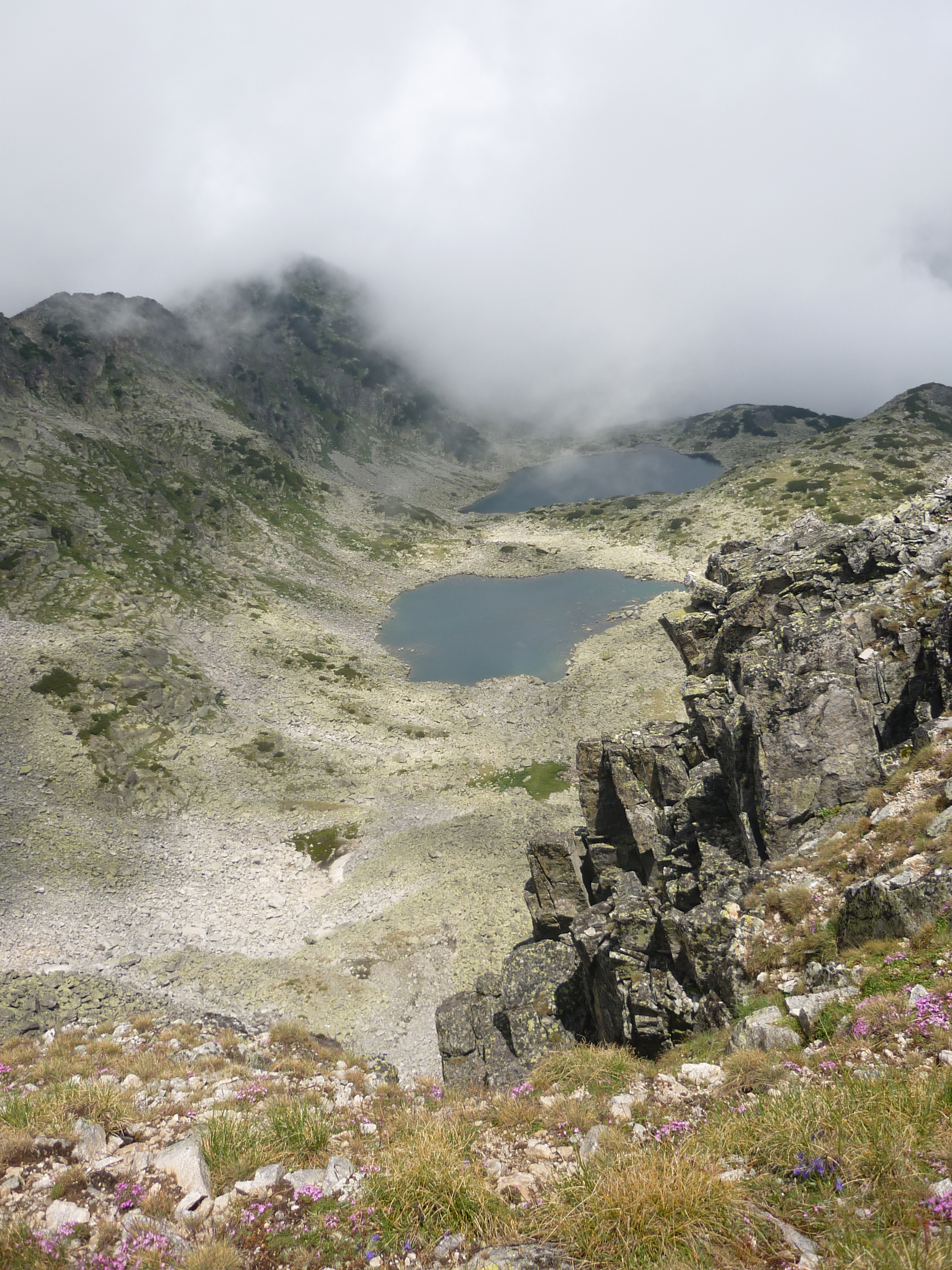 Musala's Lakes